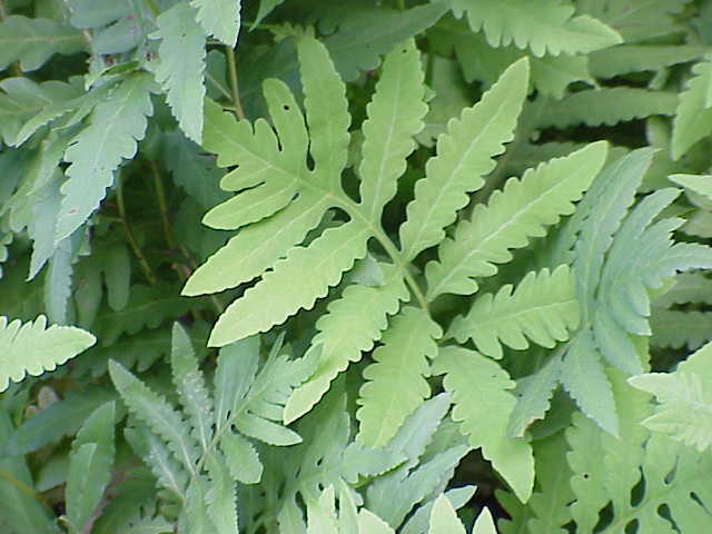 Species: Onoclea sensibilis Family: Dryopteridaceae Image No. 2